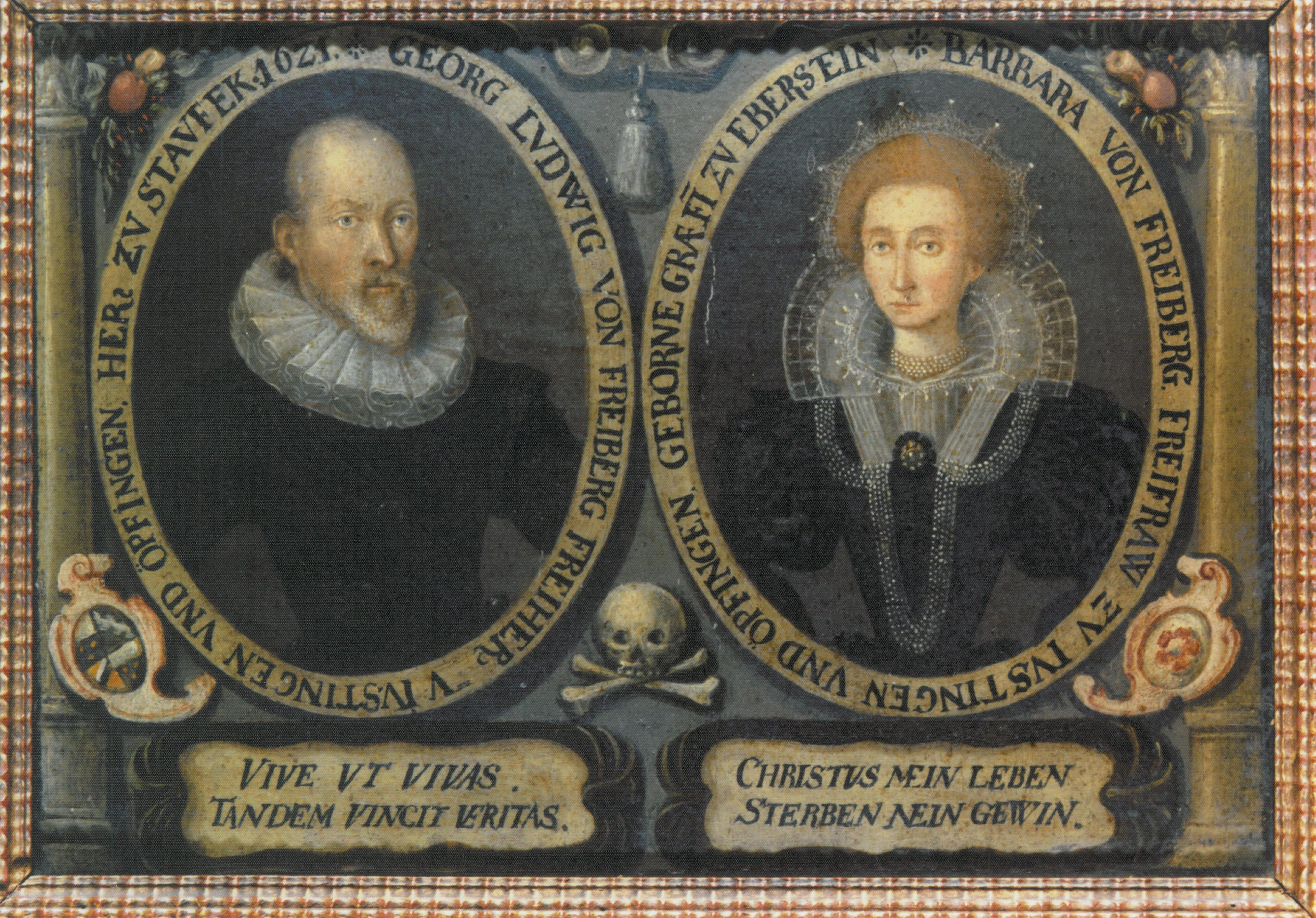 Georg Ludwig von Freyberg the younger of Öpfingen, master of Staufeneck castle, * 1574, + Staufeneck 1631 (buried in the church of Salach), 1st marriage with Barbara von Pfirt (childless); 2nd marriage Justingen castle 1589 with Barbara von Eberstein